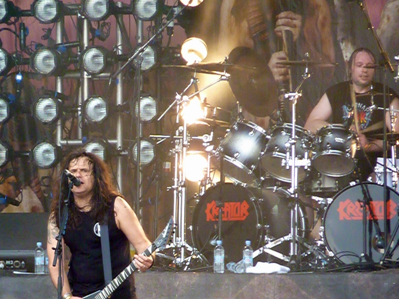 Kreator playing live Bloodstock Open Air 2011.